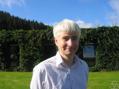 Photo of James Norris